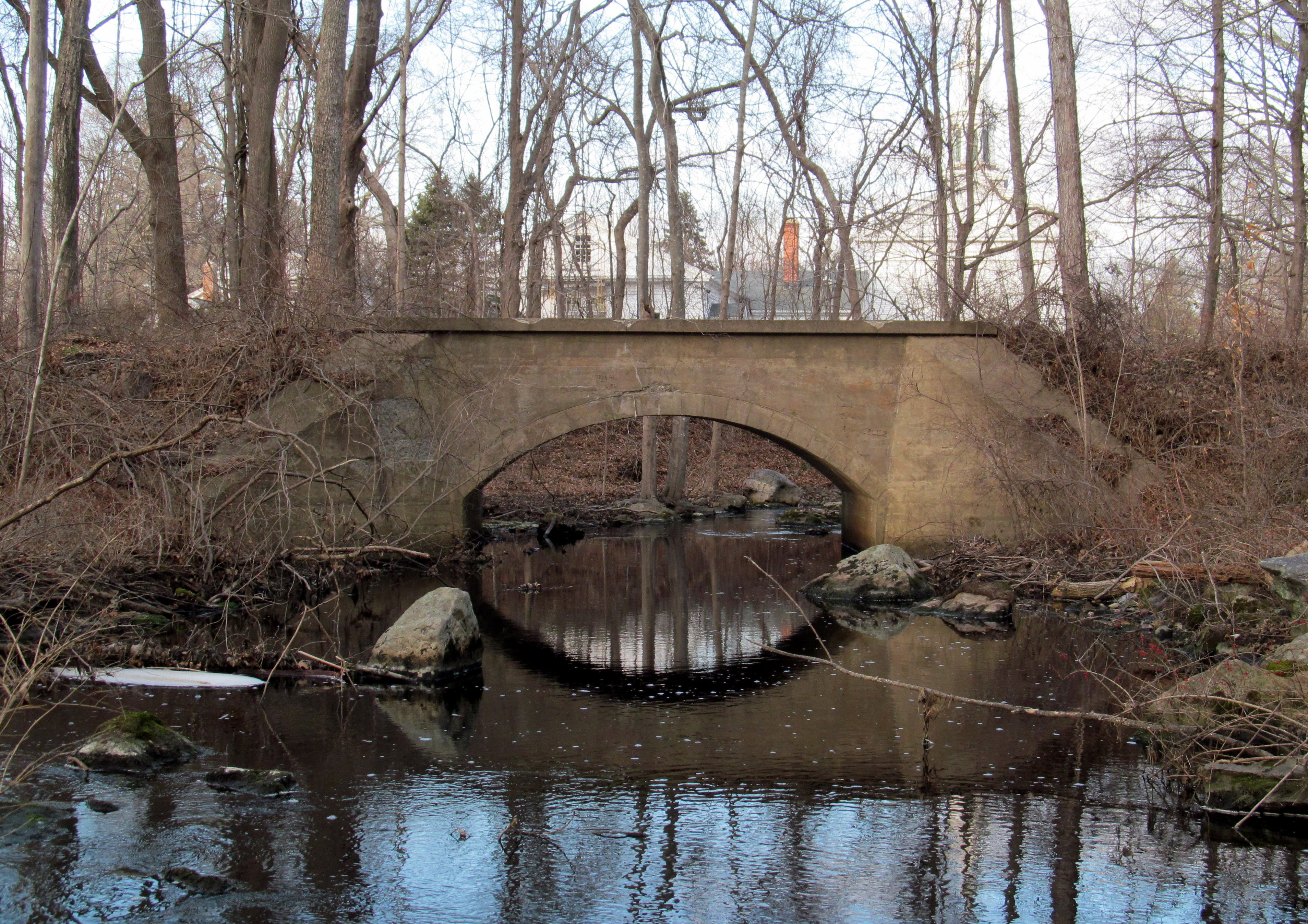 A Norwich & Westerly Railway trolley bridge remains intact over Assekonk Brook behind Wheeler High School in North Stonington, Connecticut.